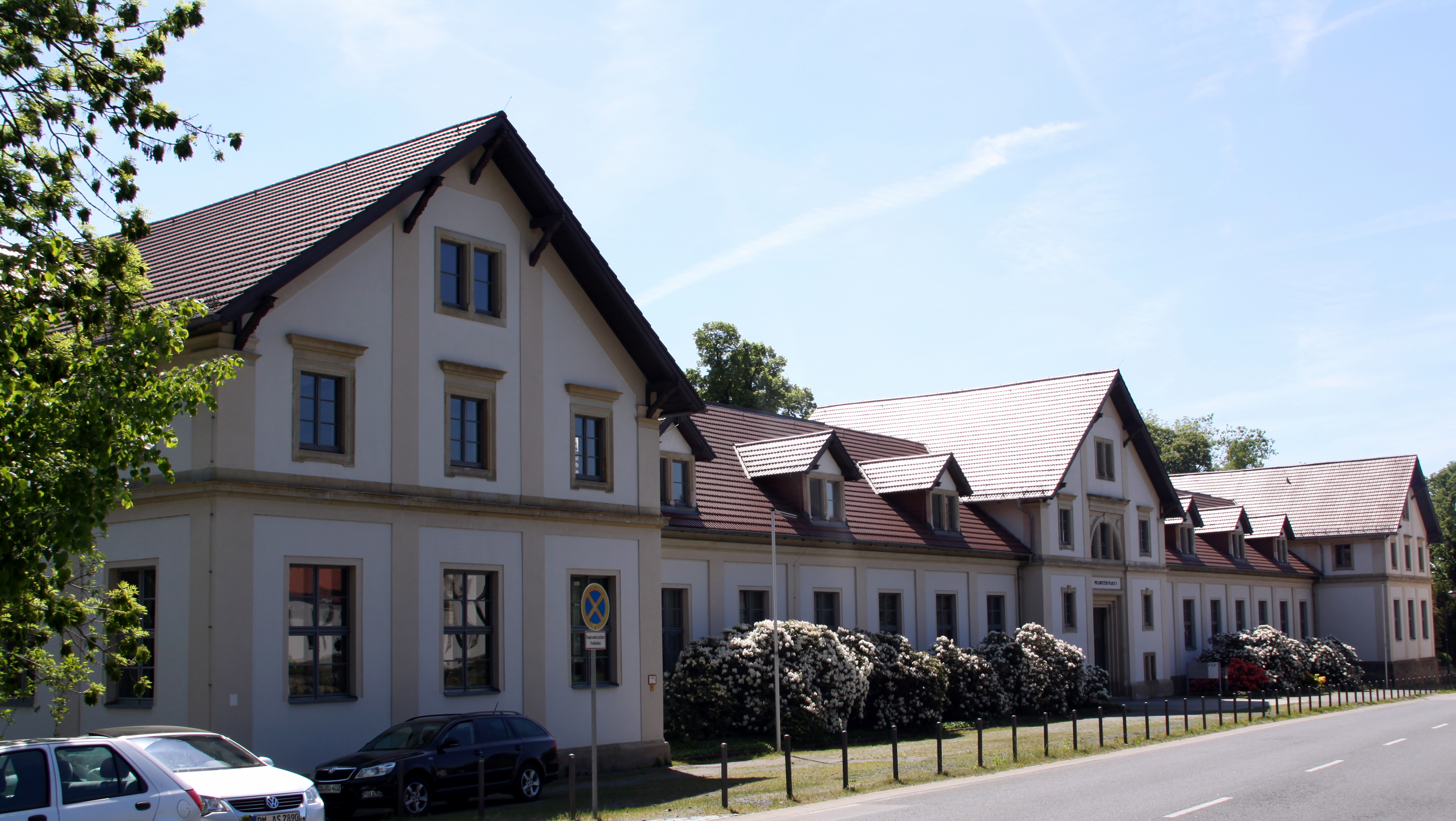 Seminar Building Department Agriculture / Landscape Management of the HTW Dresden in Dresden-Pillnitz